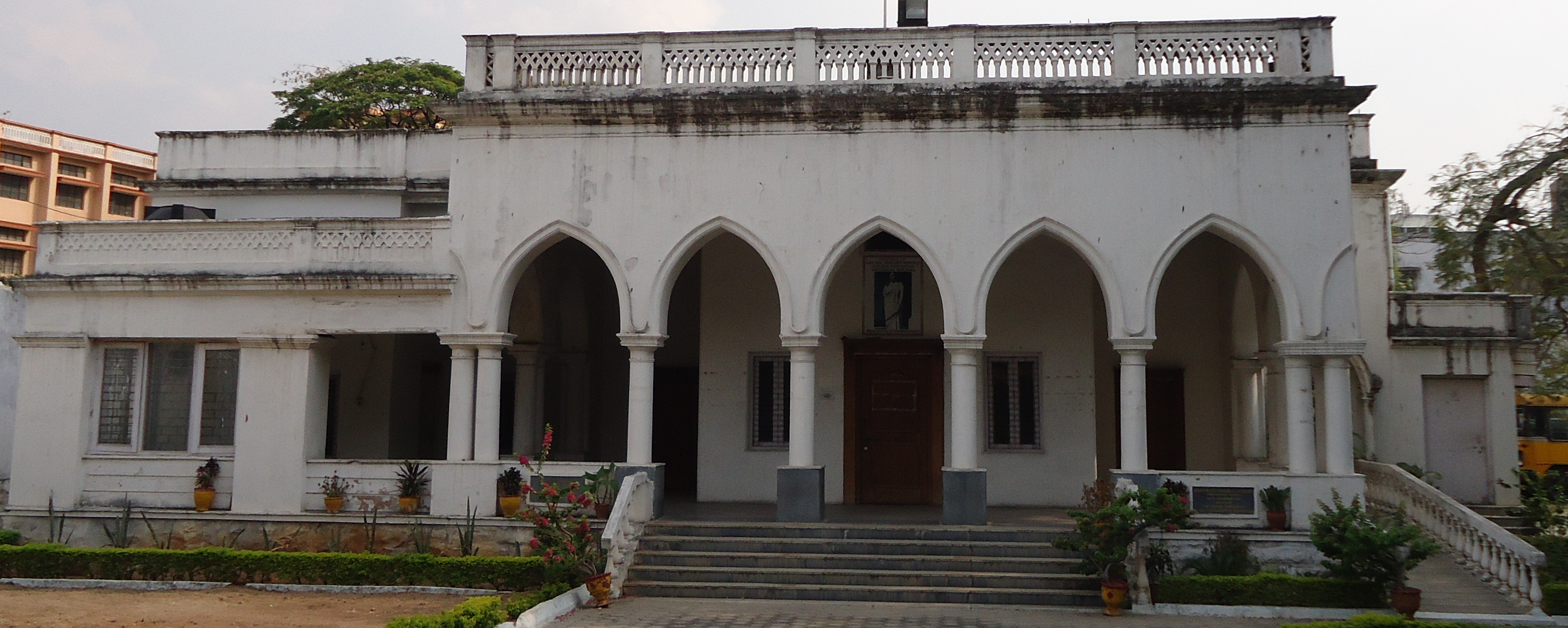 Golden Threshold is the residence of Indian freedom struggle legend Smt. Sarojini Nayudu.